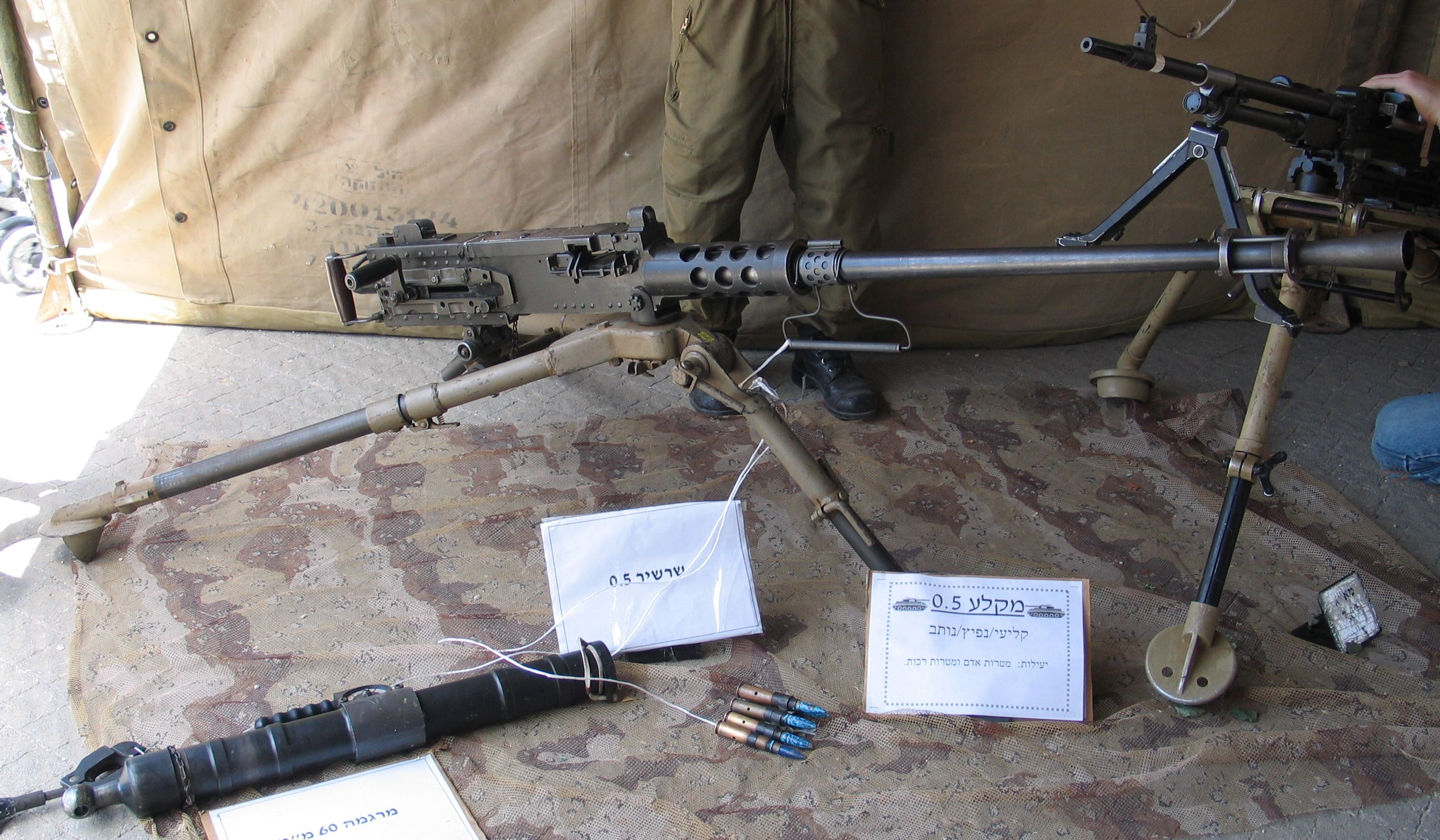 Browning M2 machine gun. Independence Day exhibition at Yad la-Shiryon Museum, Latrun, Israel.